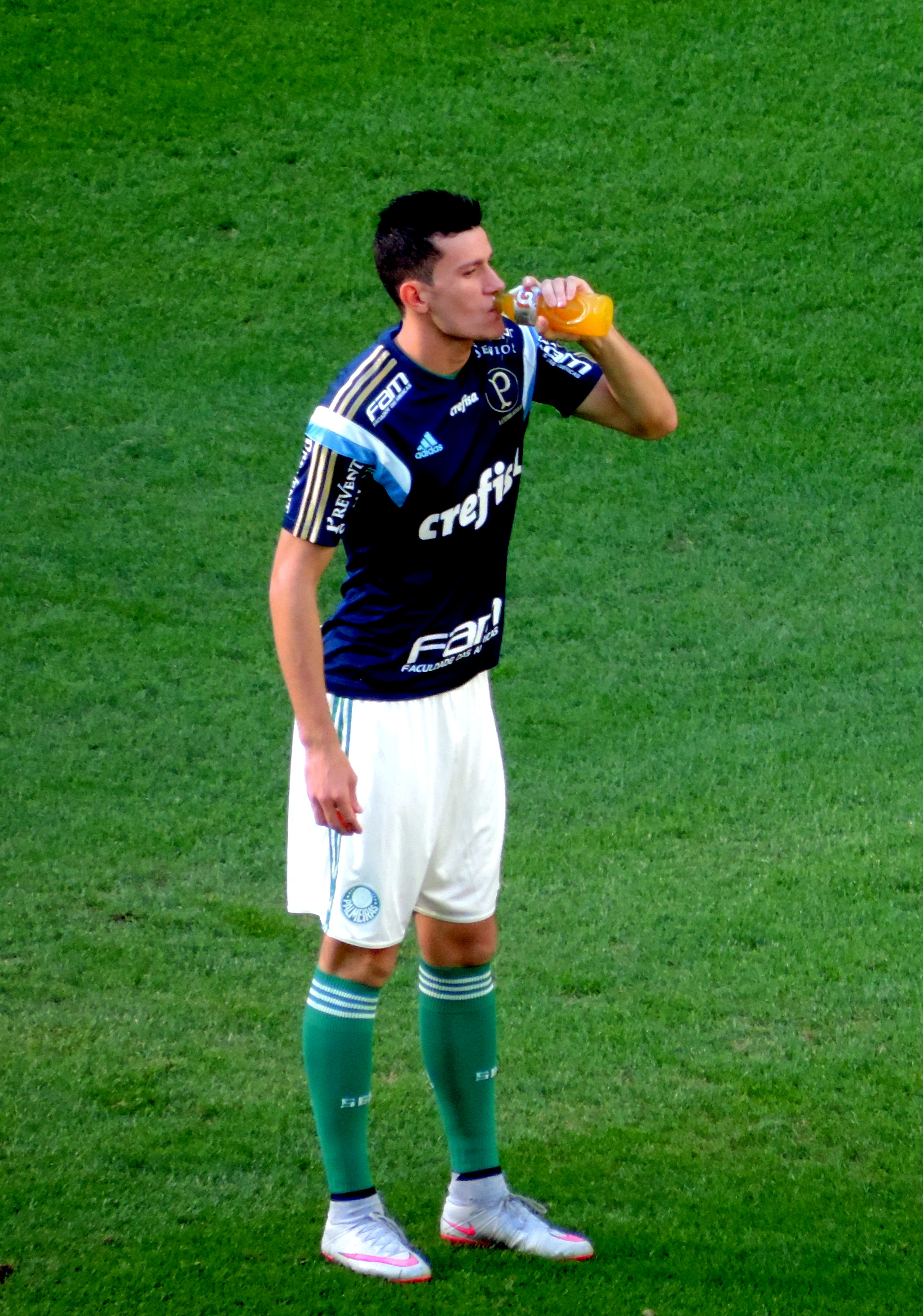 Nathan. Cardoso. Foto: Roberto Sabino